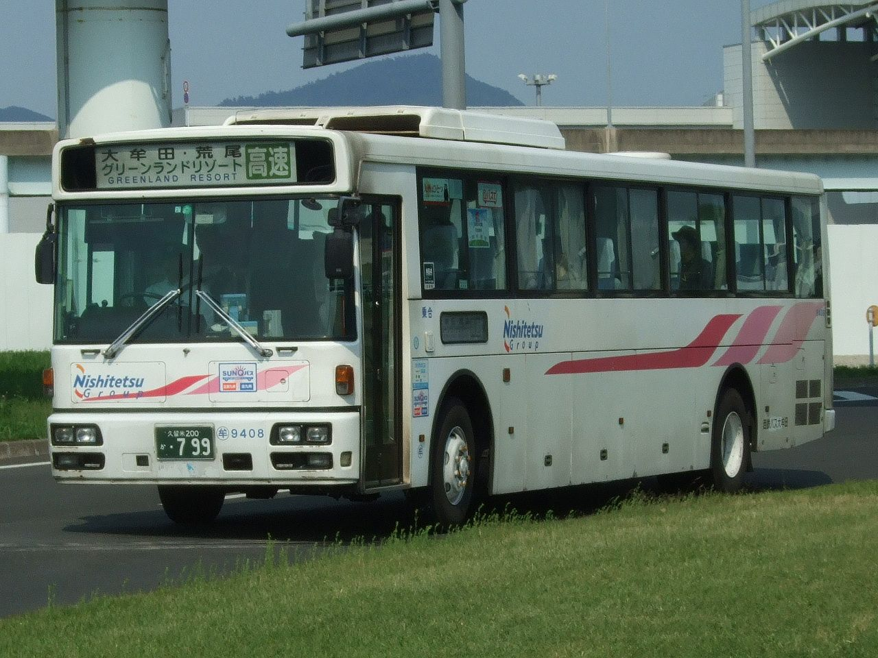 Nishitetsu highway bus operated between Fukuoka Airport and Omuta City Company:Nishitetsu Bus Omuta Use:transit bus(highway bus) Car license:FOR200 KA 799 Code:9408 Chassis manufacturer:Nissan Diesel Type:Space_Runner Coachbuilder:Nishinippon Shatai Kogyo Location:in Hakata Ward, Fukuoka City, Fukuoka, Japan.